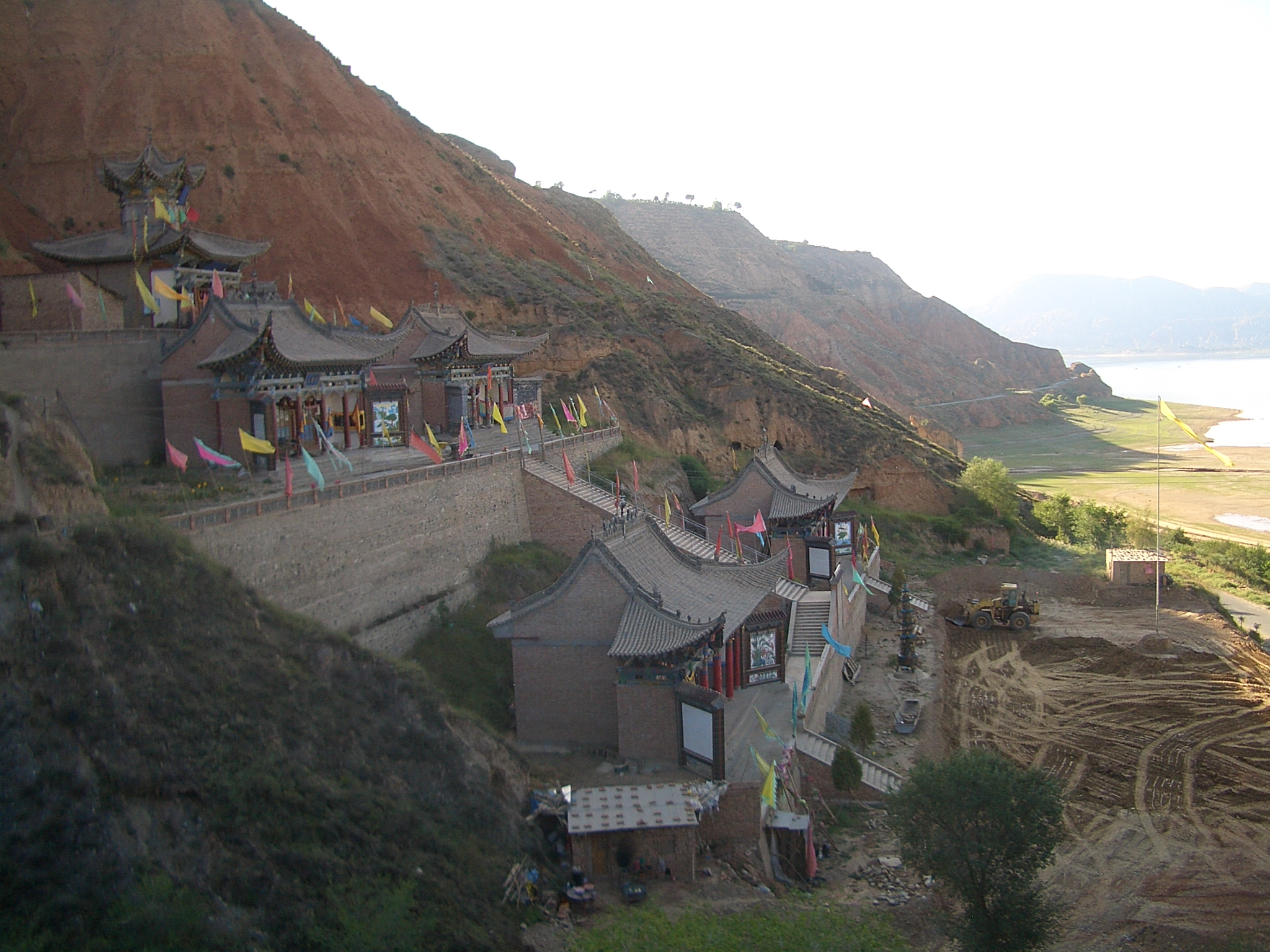 A new temple being built on the slope of the loess plateau wall in the northeastern part of Linxia County (probably in Xihe Township or Lianhua Town), facing the Daxia River Bay of the Liujiaxia Reservoir. The hills in the far background (beyond the reservoir) are in Yongjing County.